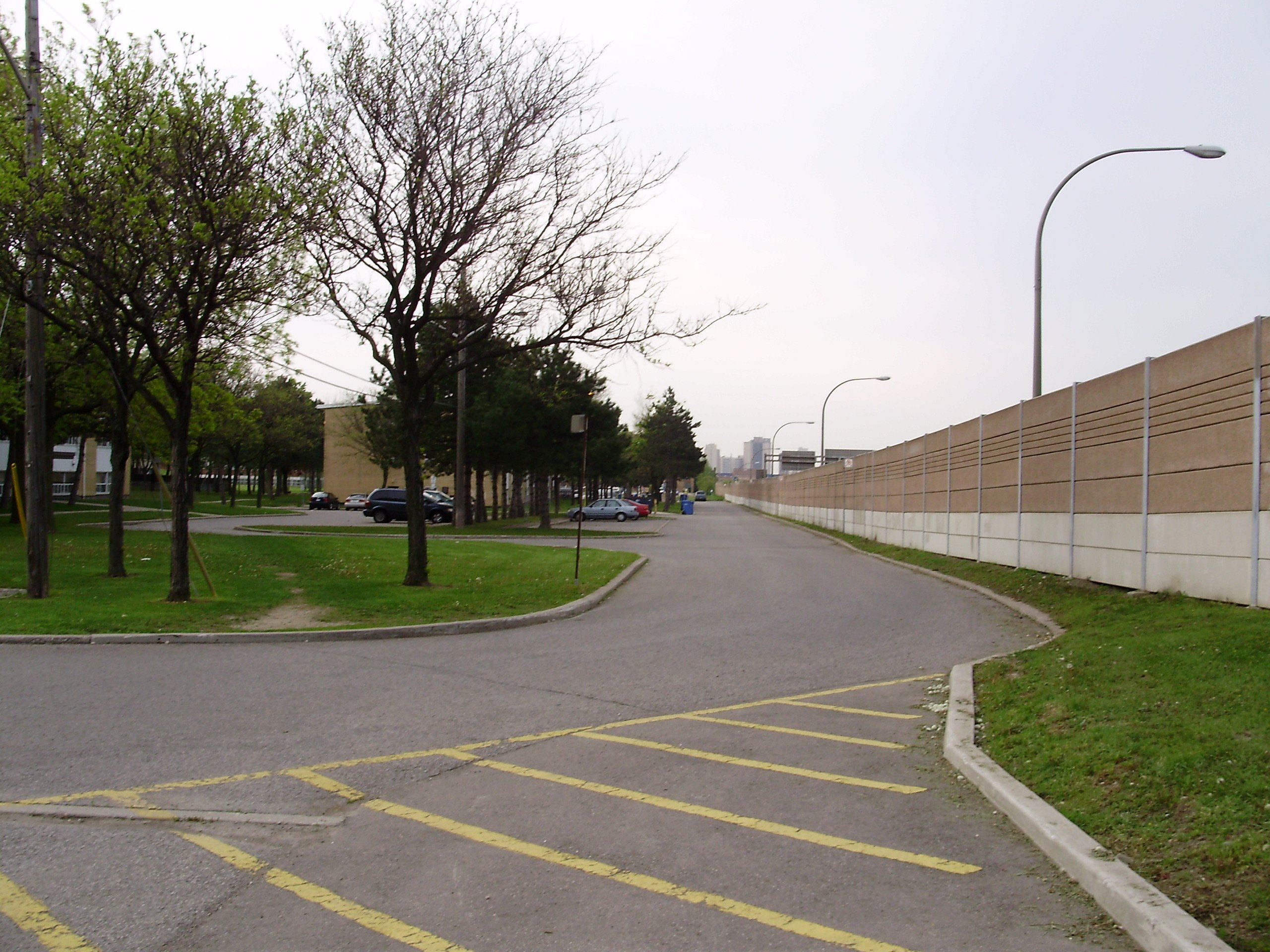 A housing development in the neighbourhood of Englemount-Lawrence in Toronto, Ontario, Canada. The standing wall acts as a barrier between the development and Allen Road, immediately behind it.